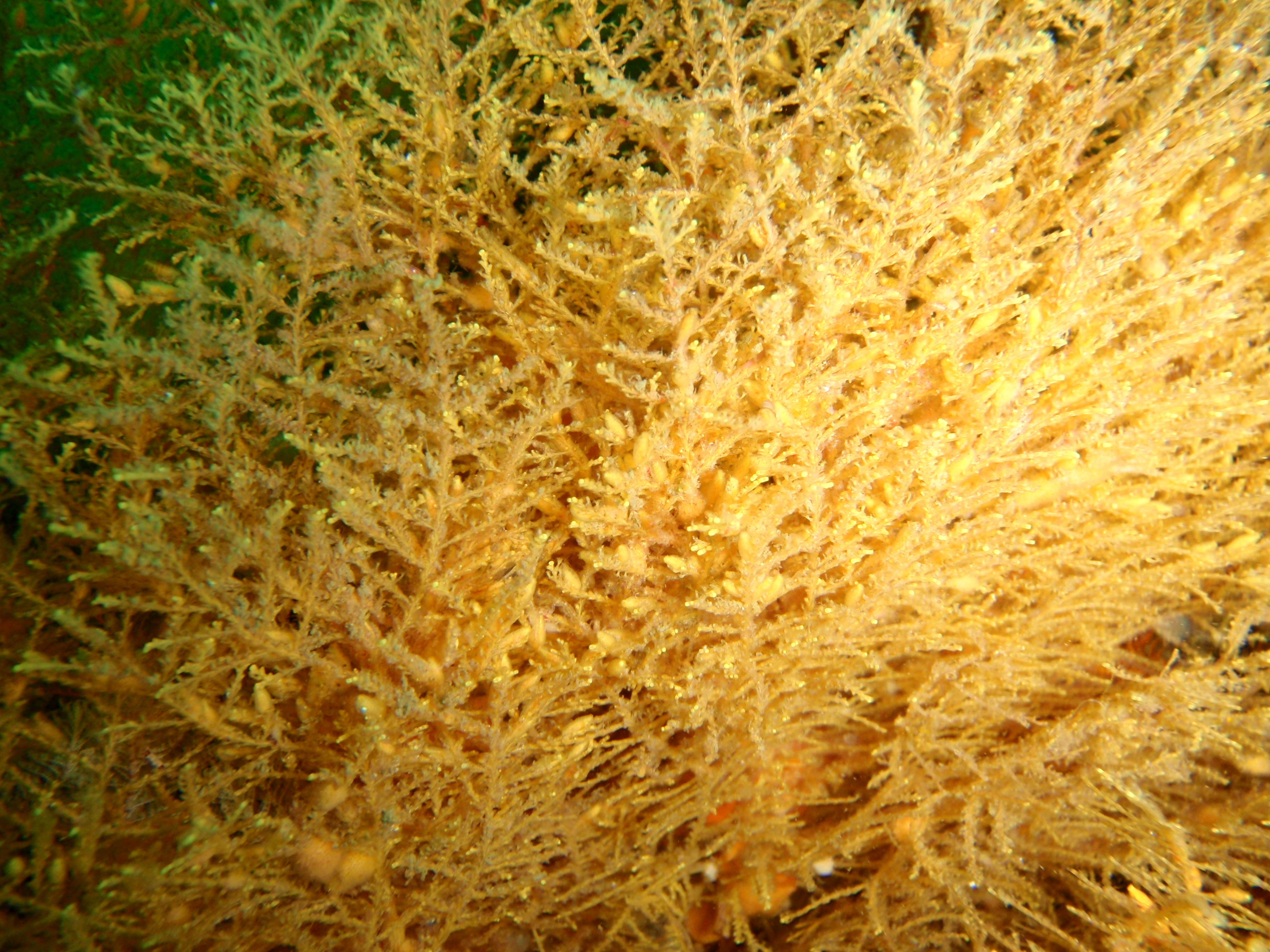 Planar hydroids at the wreck of SAS Pietermaritzburg at Miller's Point on the Cape Peninsula